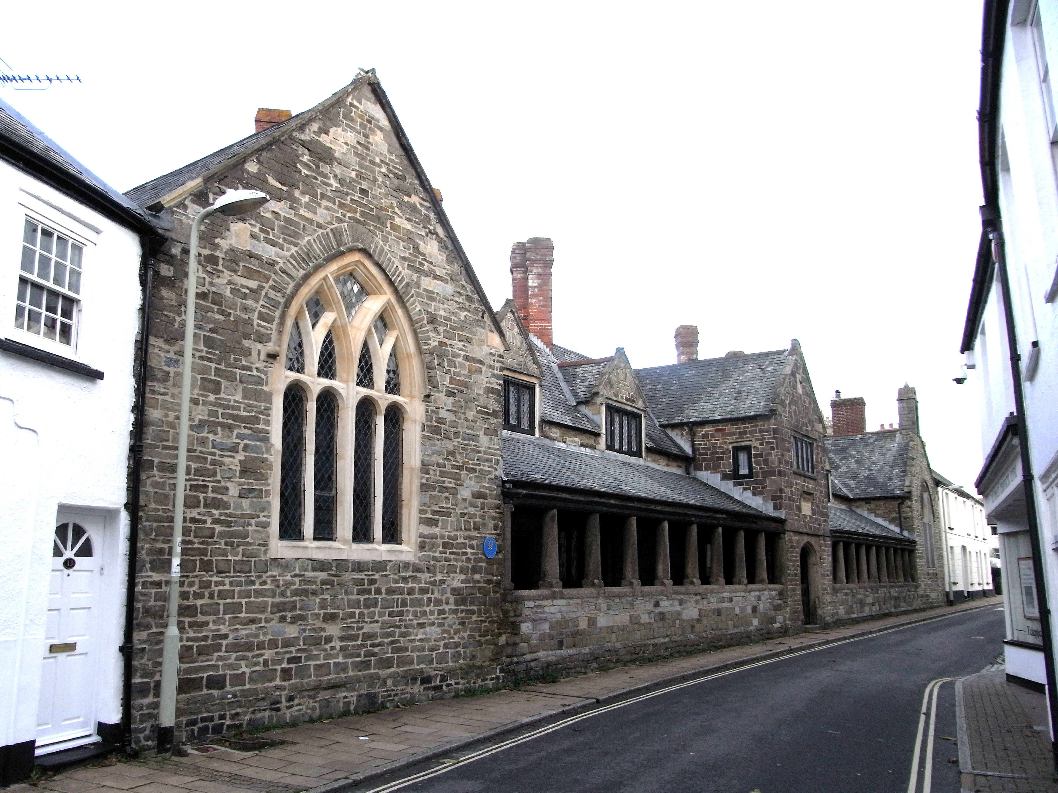 Penrose Almshouses, Lichdon Street, Barnstaple, North Devon. Built in 1627 in accordance with the bequest of John Penrose (d.1624), of Fremington, Mayor of Barnstaple in 1620.